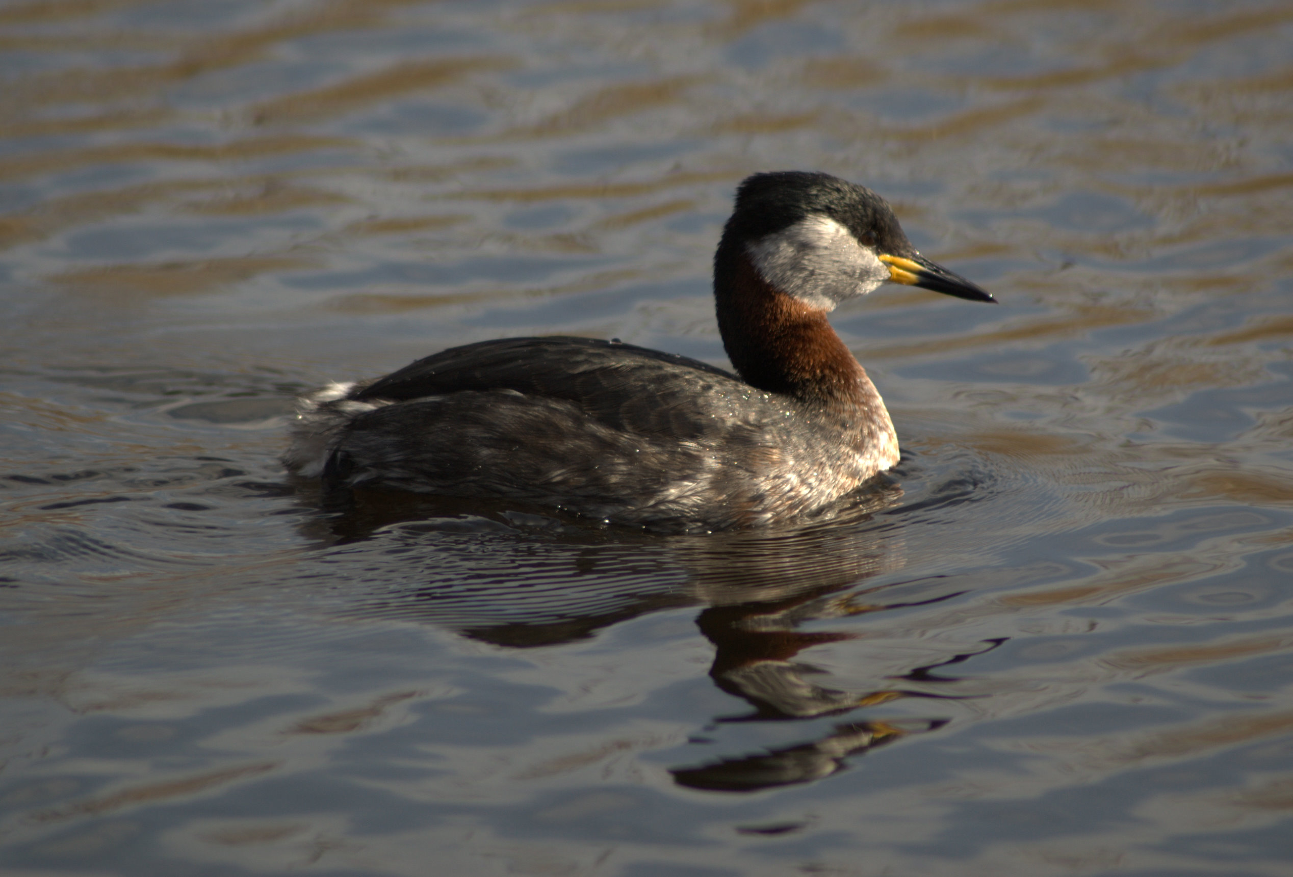 A bird of the species Podiceps grisegena. en: Red-necked Grebe (English) de: Rothalstaucher (German) fr: Grèbe jougris (French) sv: Gråhakedopping (Swedish) Camera: Nikon D50 Location: A pond in the northern parts of the old military area (Kalvebod Fælled) in Vestamager, Copenhagen, Denmark.